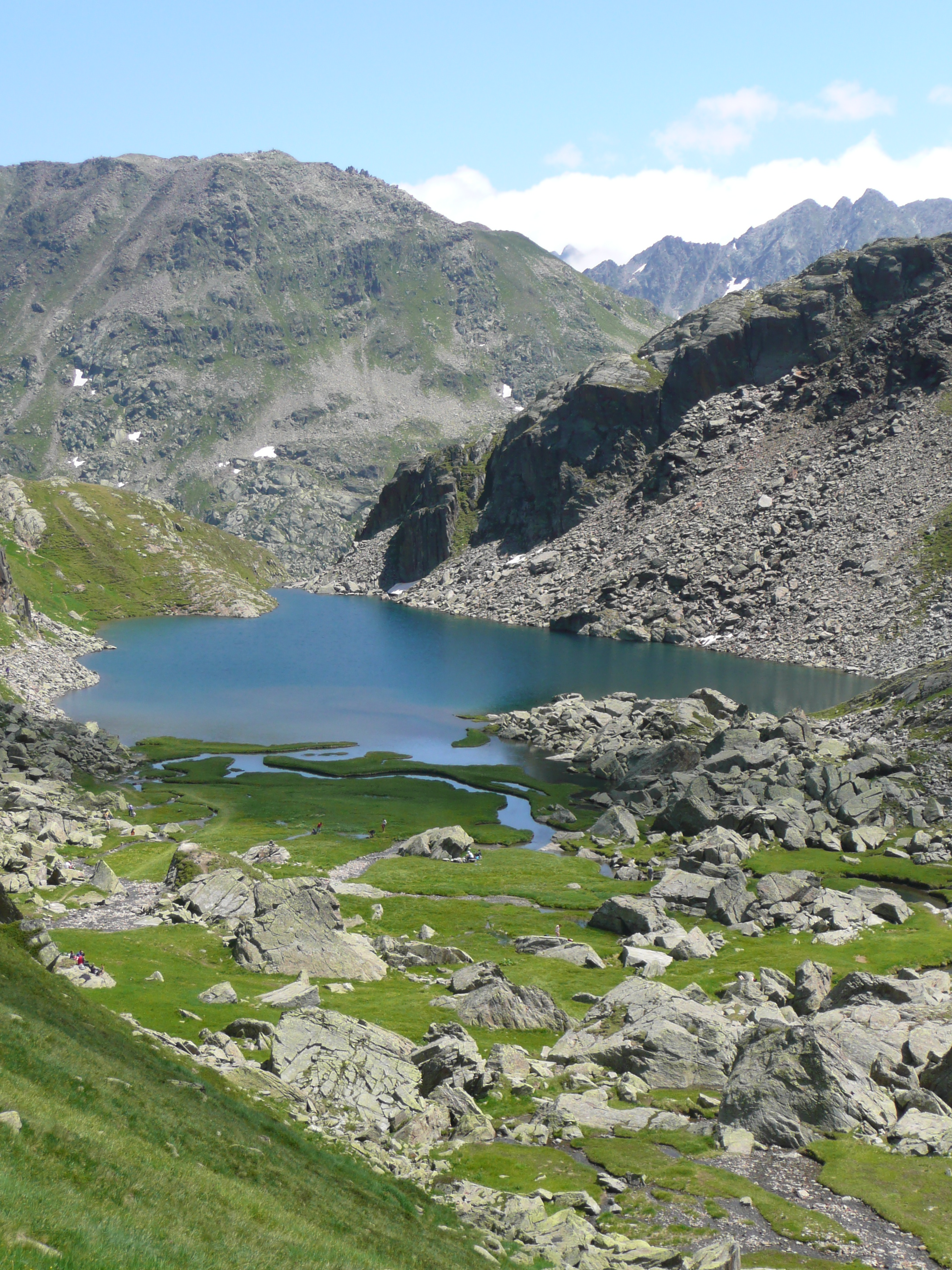 Origin of the Rhine Anteriur in the Kanton Graubünden in Switzerland